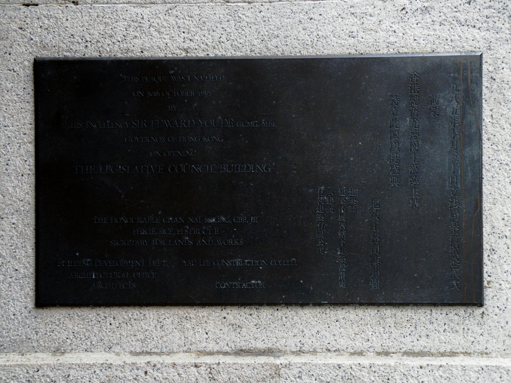 Plage of The opening of LEGCO Building